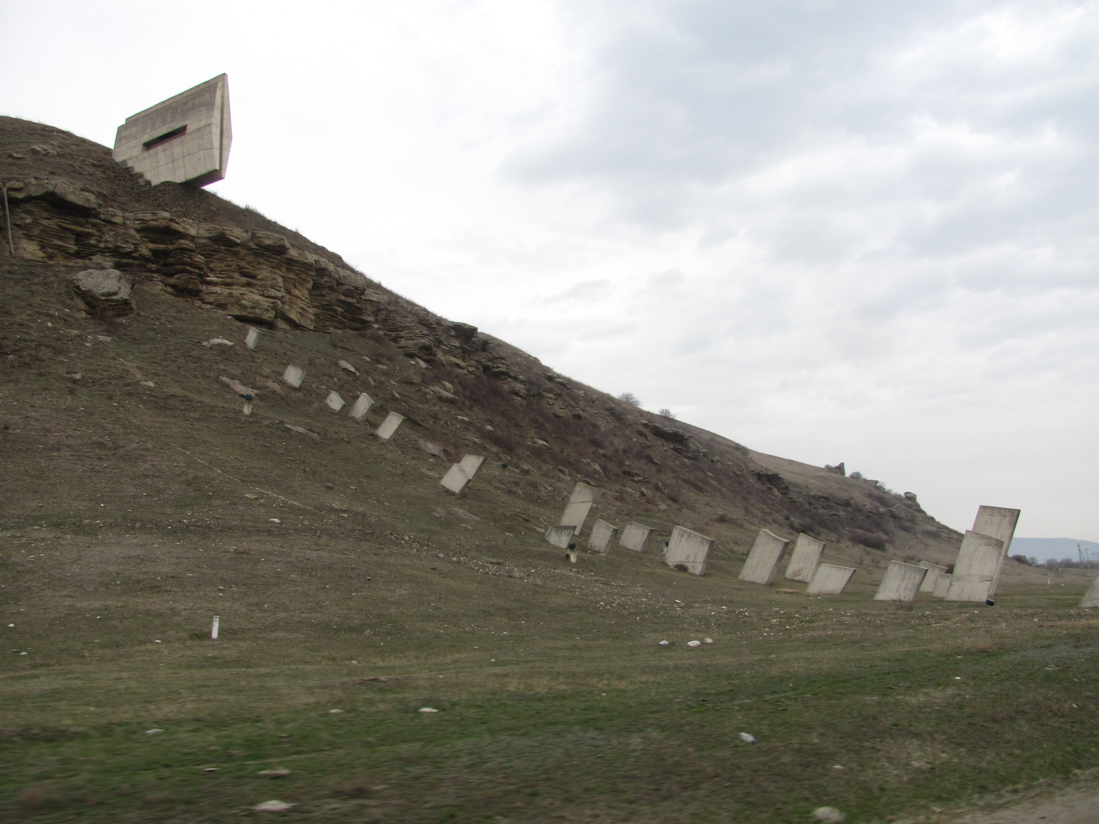 Suchumska Droga Wojenna-wieczny płomień, Republika Karaczajo-Czerkieska